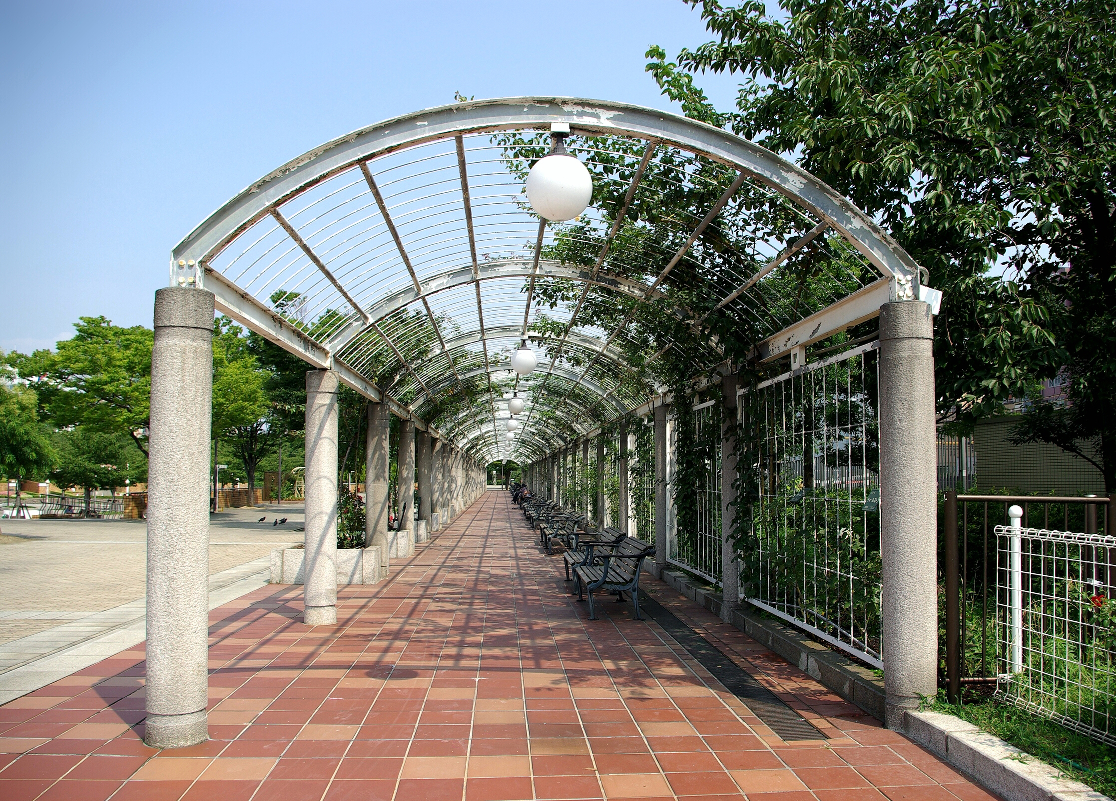 One-point perspective. Tennoji Park, Osaka, Japan.